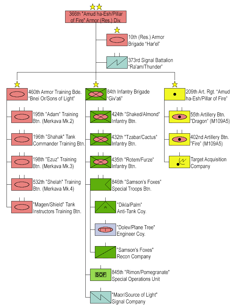 Structure IDF 366th "Amud ha-Esh"/"Pillar of Fire" Armor Division.